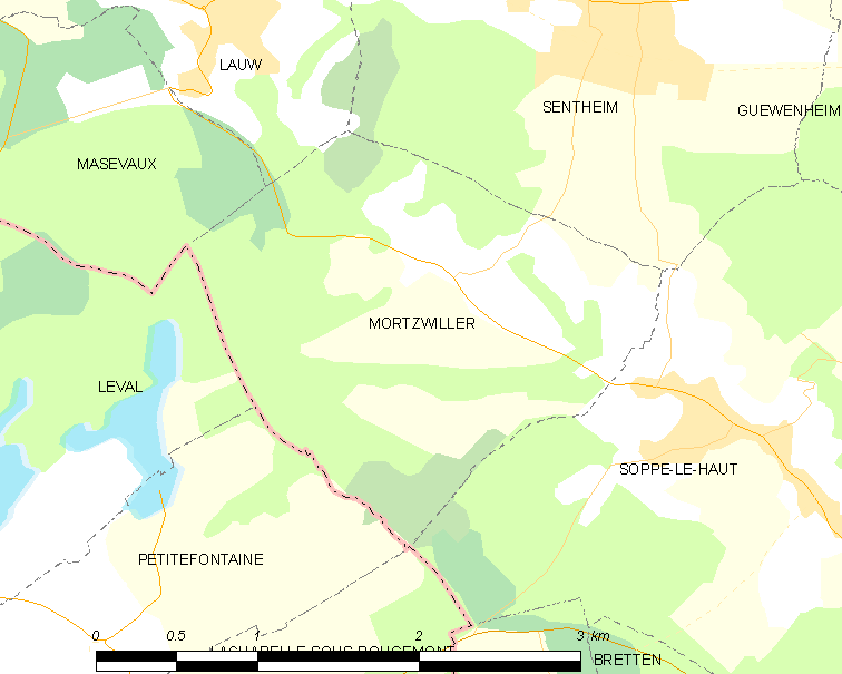 Map of French municipality